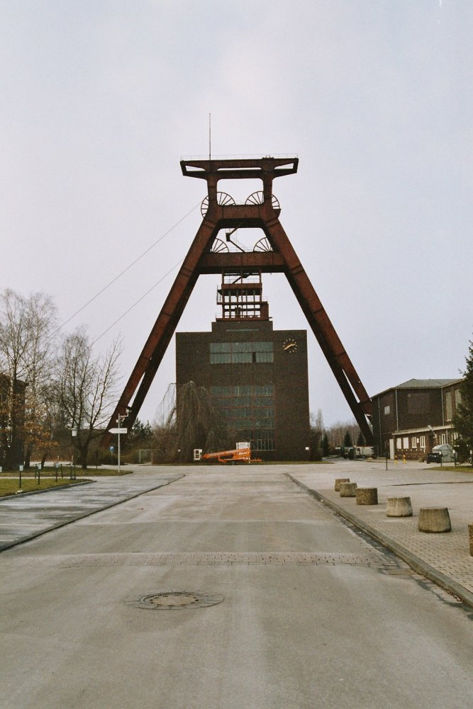 Mining pit with tower